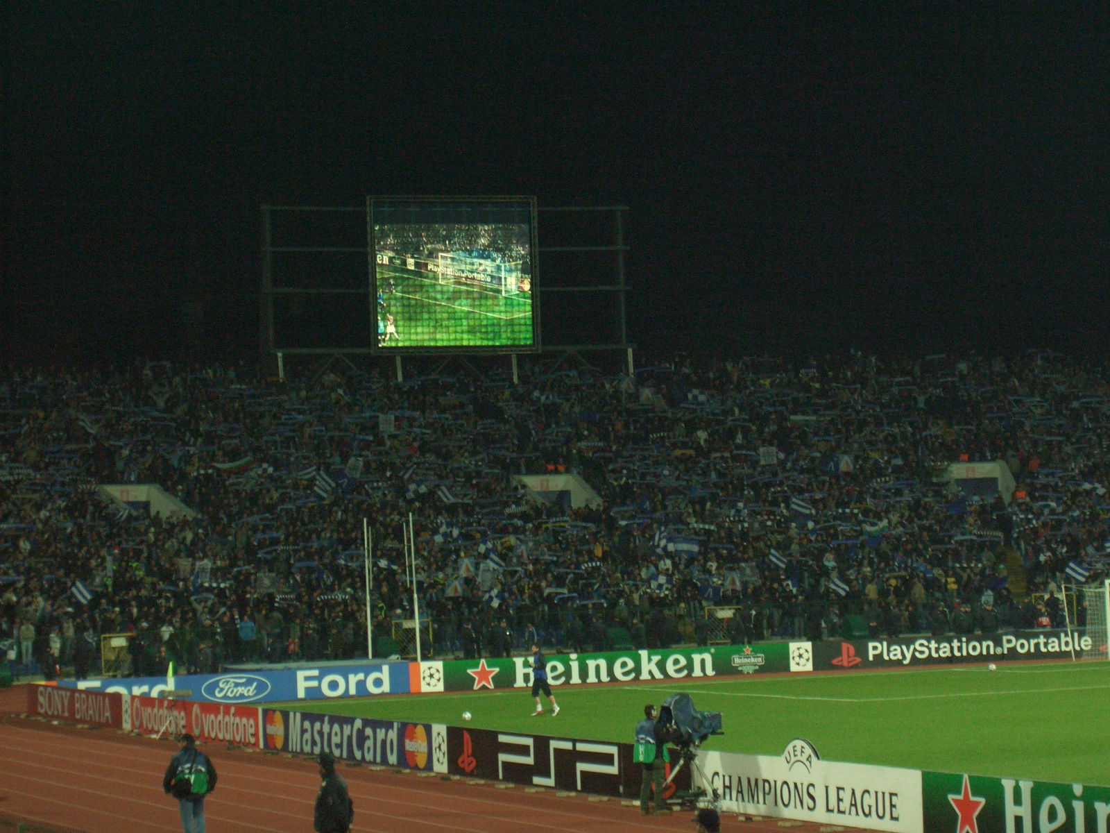 Levski Sofia fans during UEFA Champions League's Group A match between Levski Sofia and Werder Bremen